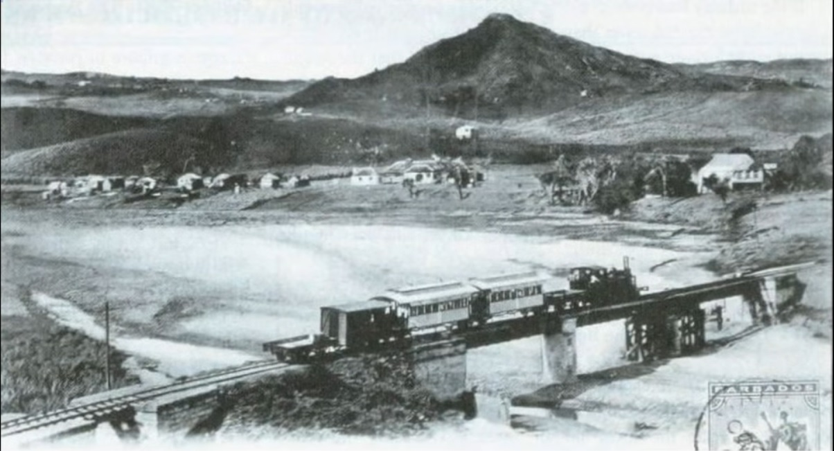 The Barbados Railway crossing Long Pond, St. Andrew, before the gauge change of 1898